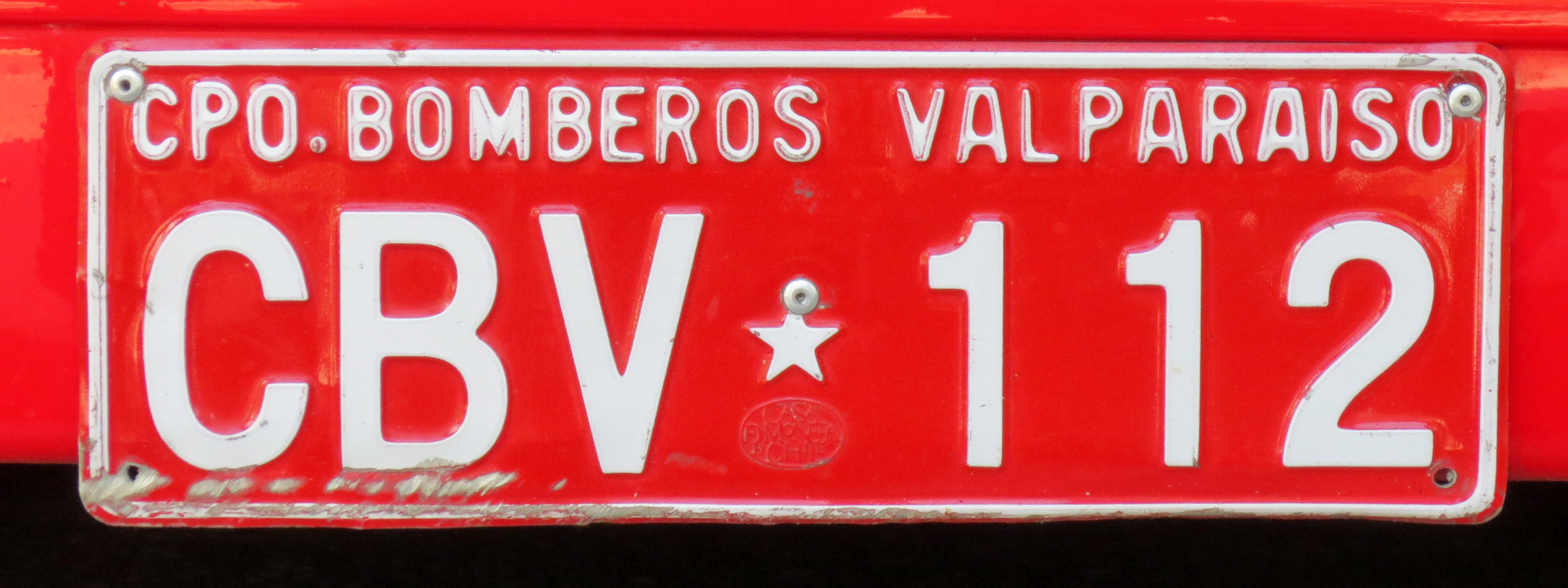 Chilean registration plate: fire fighters Valparaiso